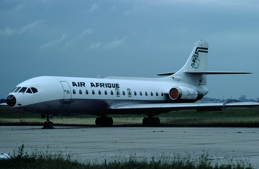 An Air Afrique Sud SE-210 Caravelle 10B1R at Le Bourget Airport (LBG / LFPB)